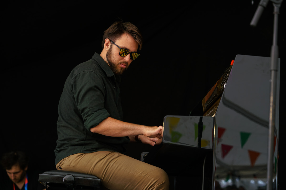 Artur Tuźnik @ Aarhus Jazz Festival (Denmark 2019)